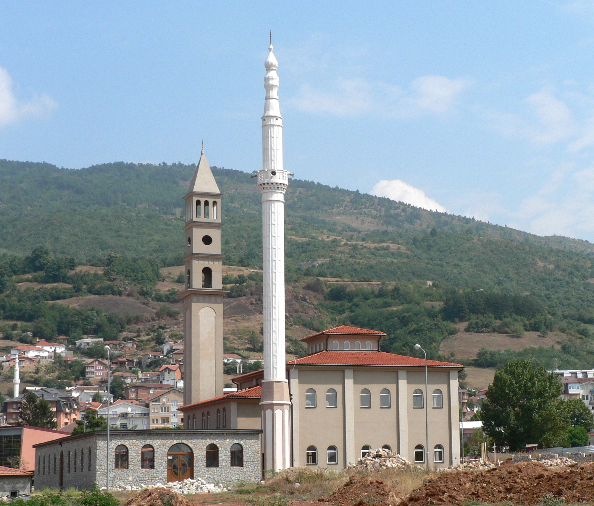 View of Debar in western Macedonia.